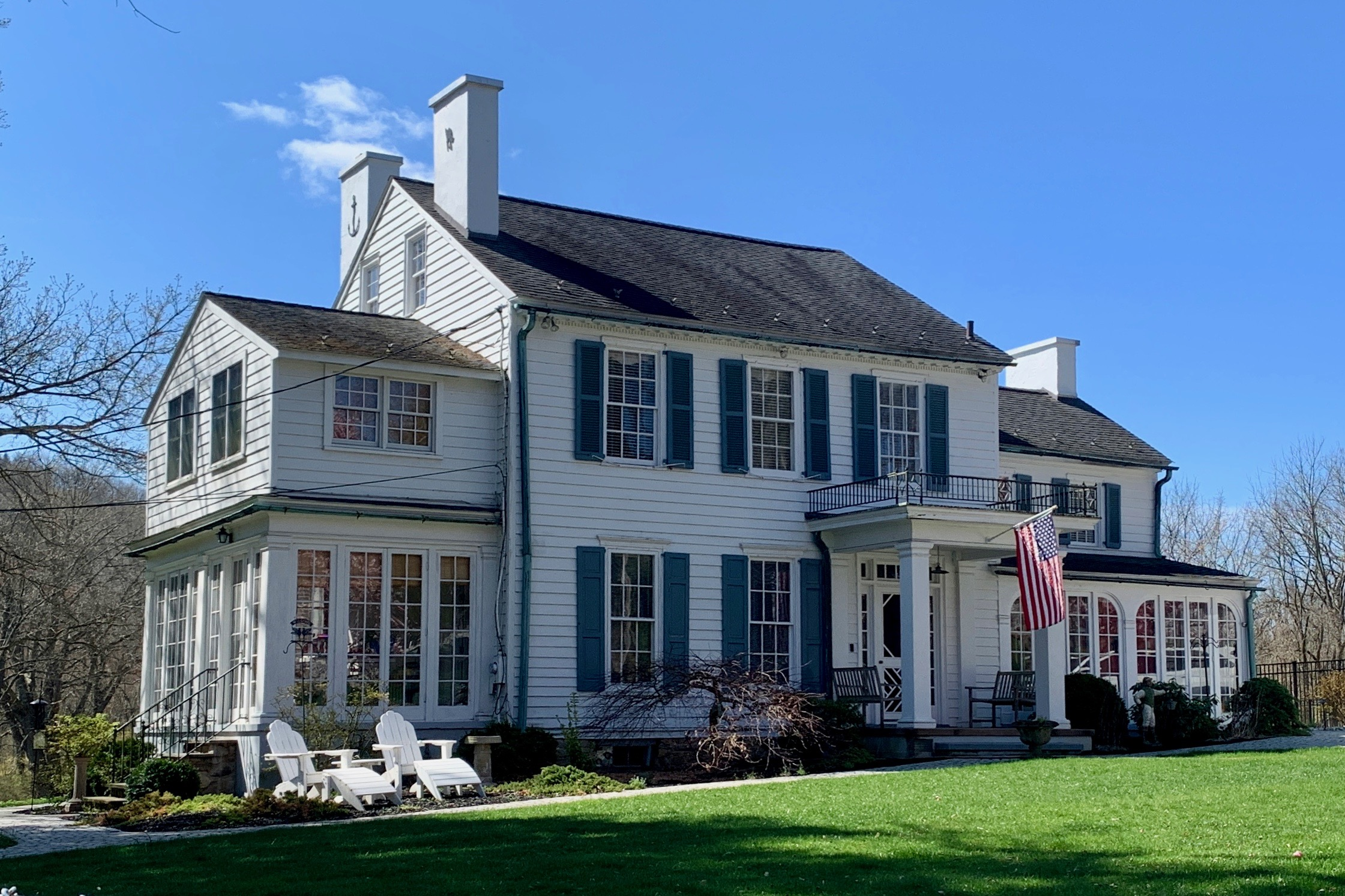 Historic Sherrerd/Warne/Eckel house in Pleasant Valley, Warren County, New Jersey. Contributing property #3 in the Pleasant Valley Historic District (Warren County, New Jersey). Built 1834, remodeled 1865, 1930. Federal / Greek Revival influences, Colonial Revival remodeling.